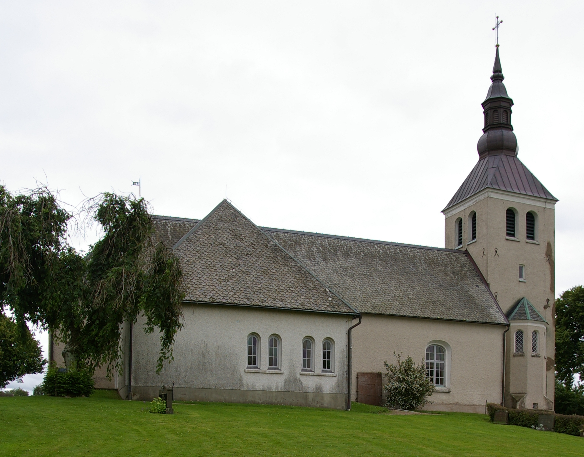 Gudhems kyrka (Swedish:Church of Gudhem) in Västergötland, Sweden. Built at the end of the 12th century (1160-1200)